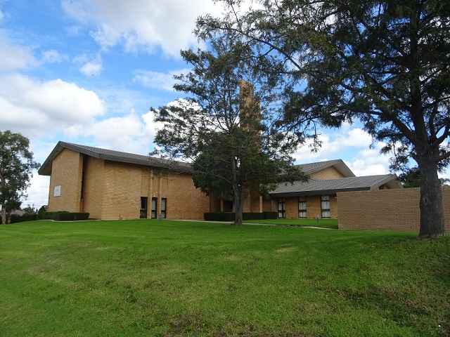 Church of Jesus Christ of Latter Day Saints in Hebersham, NSW